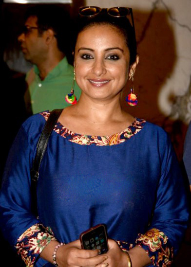 Divya Dutta graces the screening of Sonata